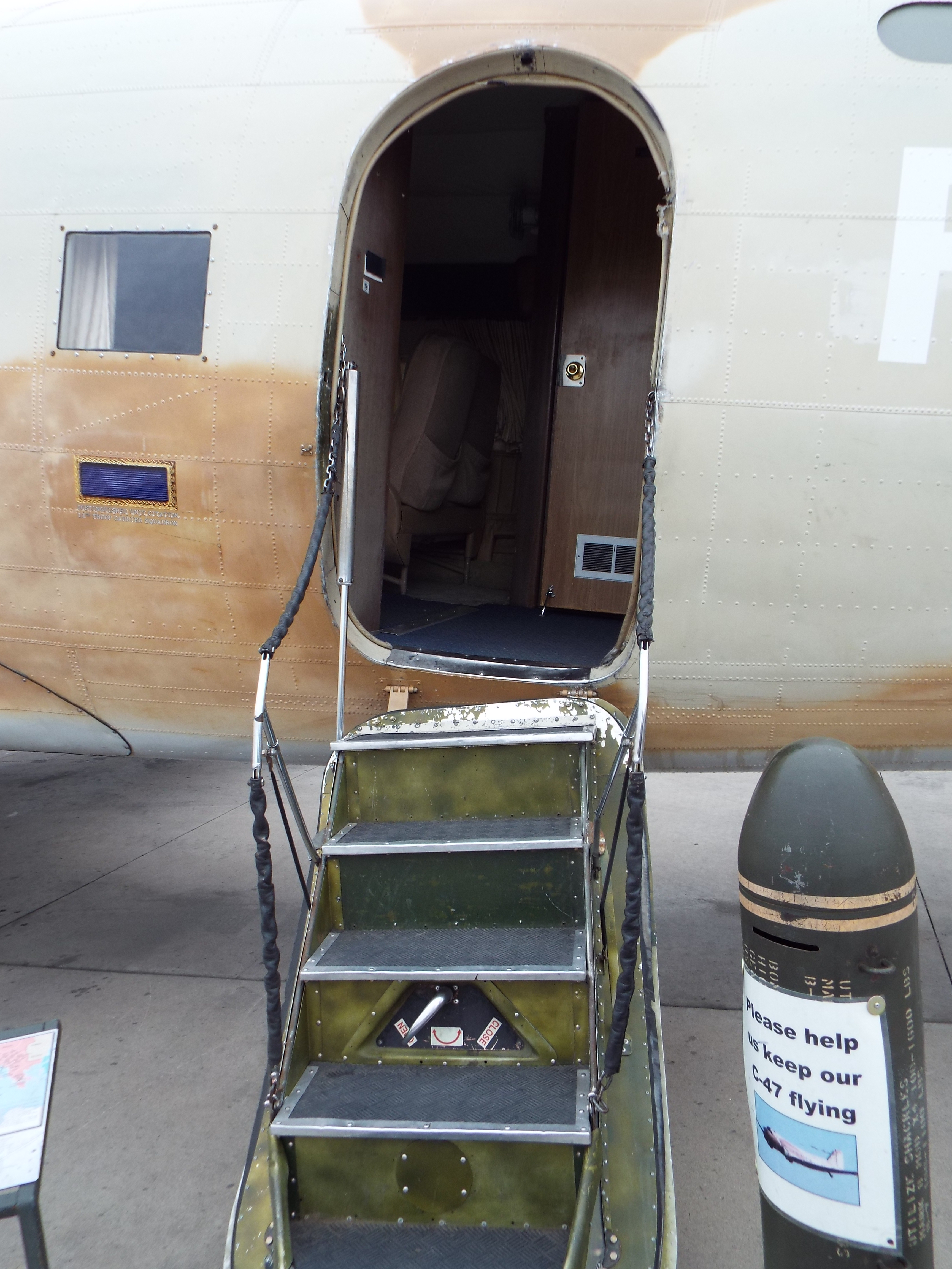 Mesa-Arizona Commemorative Air Force Museum-Douglas C-47 Skytrain Dakota “Old Number 30” entrance